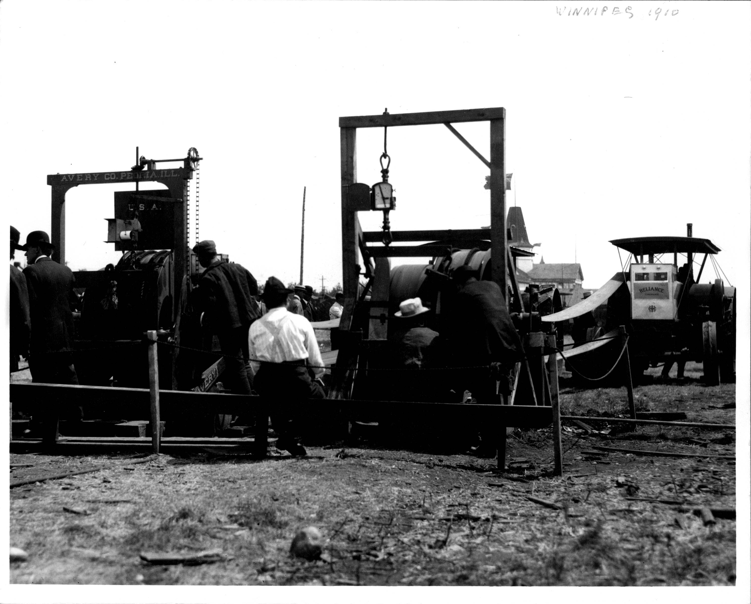 Winnipeg Tractor Contests 1910. In the background are two tractors, the one on the left being mostly obscured. Each tractor is connected by a belt to a separate De Prony Brake Dynamometer in the foreground. From a scanned print in the University of Nebraska–Lincoln Digital Collections, wherein the right-hand tractor is identified as an IHC Tractor. Date/Date Range: 1910 Keyword(s)--Subject: IHC tractors; Dynamometer Original Size: 20x25cm Original Format: Black/White Print Digital Object Identifier: 333 RG Number/MS Number: RG 08/07/11 Collection Title: Lester F. Larsen Tractor Test and Power Museum, Records Collection Creator: Lester F. Larsen Tractor Test and Power Museum Collection Collector: Lester F. Larsen Tractor Test and Power Museum Repository: UNL Libraries